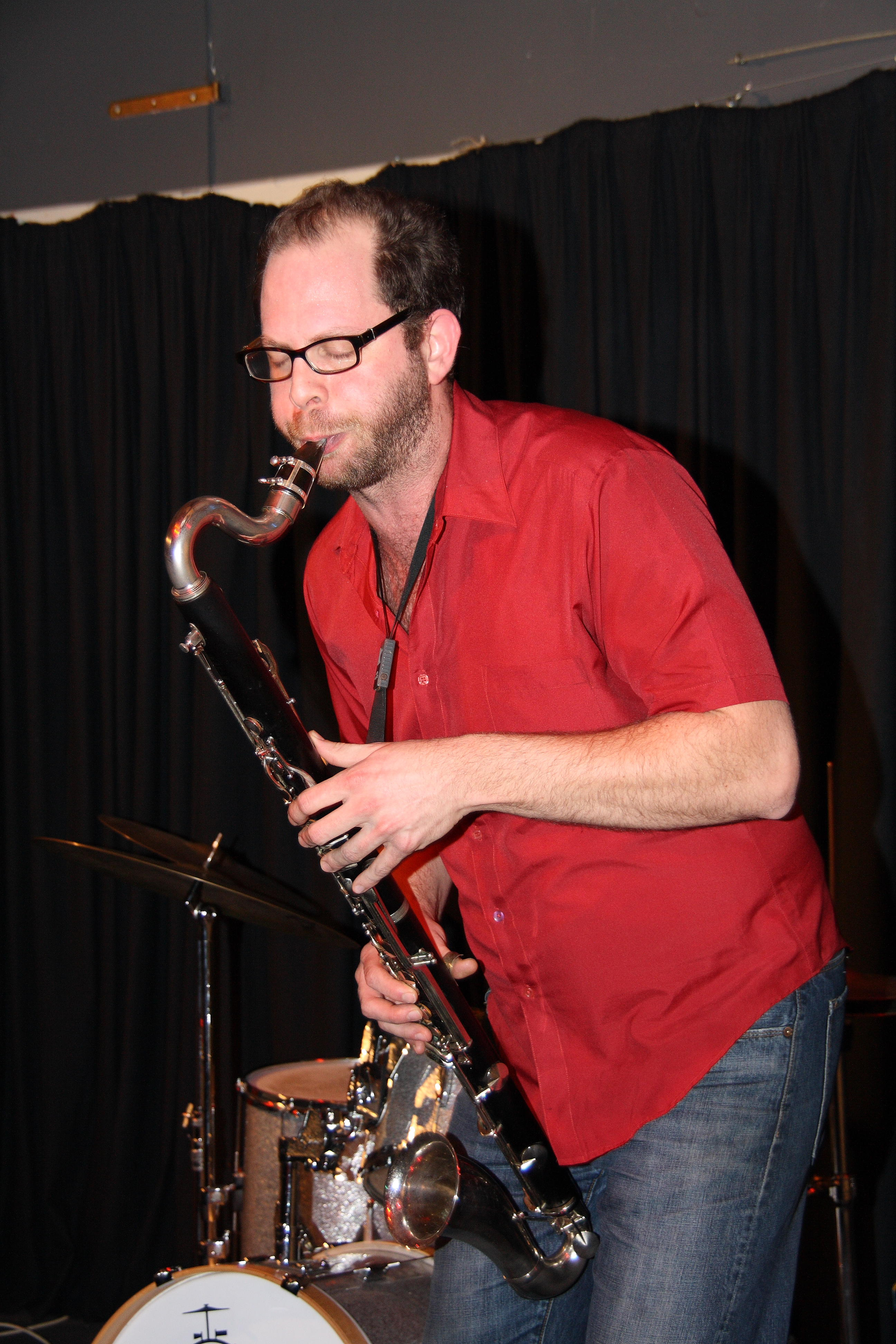 Jason Stein (bass clarinett) with Locksmith Isidore at Club W71, Weikersheim